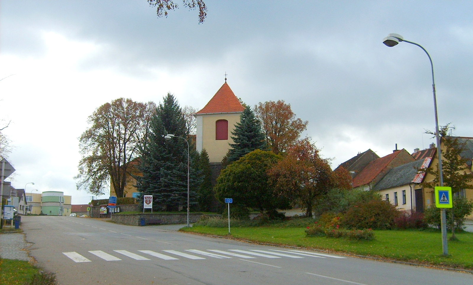 Church of St James on the square in Čechtice.